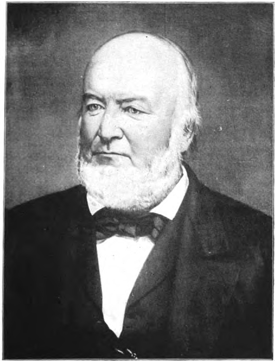 John Brough, from a painting by Allen Smith after Caroline A. Ransom, in the Capitol in Columbus.